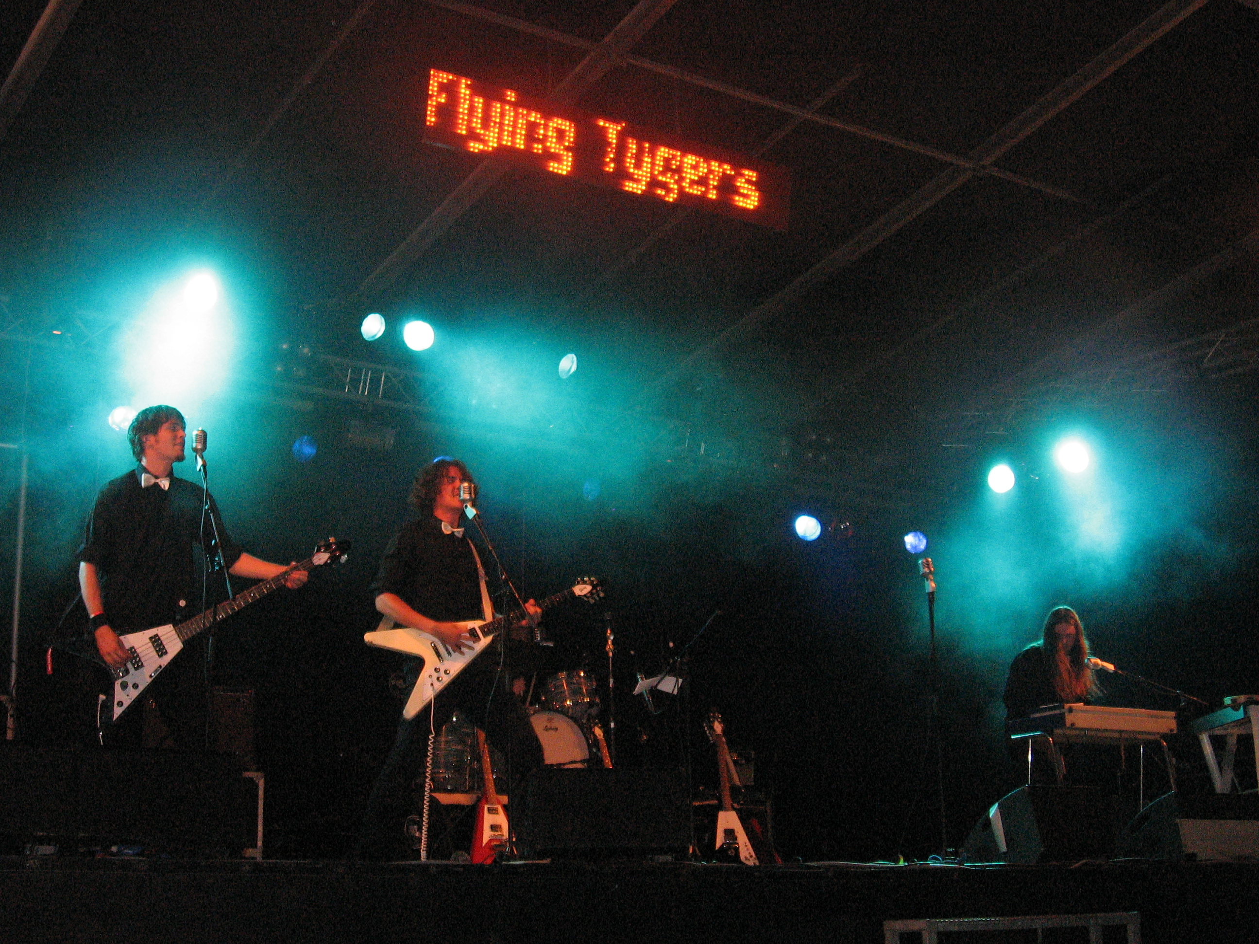 Flying Tygers - Westerpop 2008